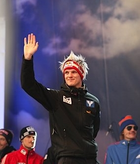 Thomas Morgenstern during Adam's Bull's Eye on March 26, 2011 in Zakopane.